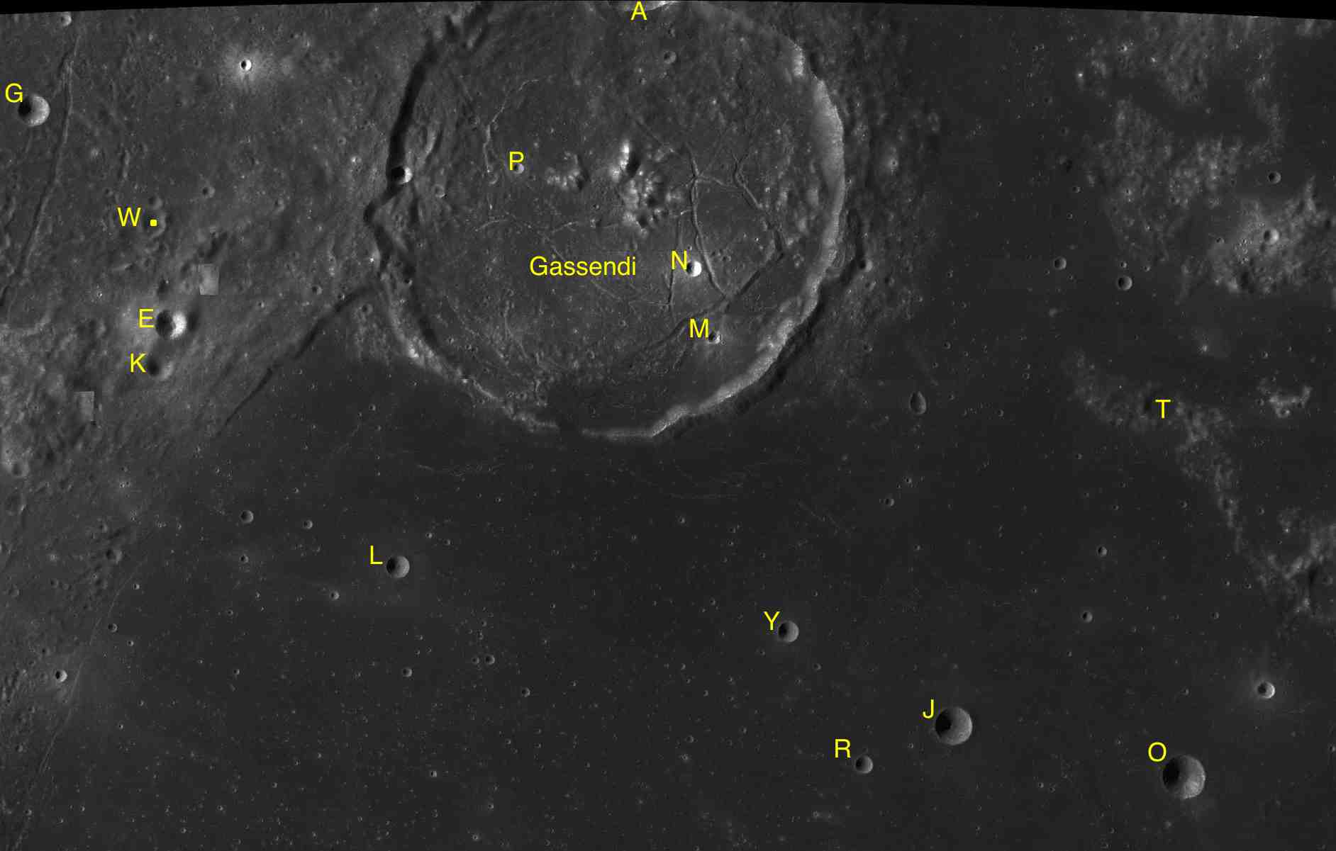 Part of the chart LAC-93 used for the presentation